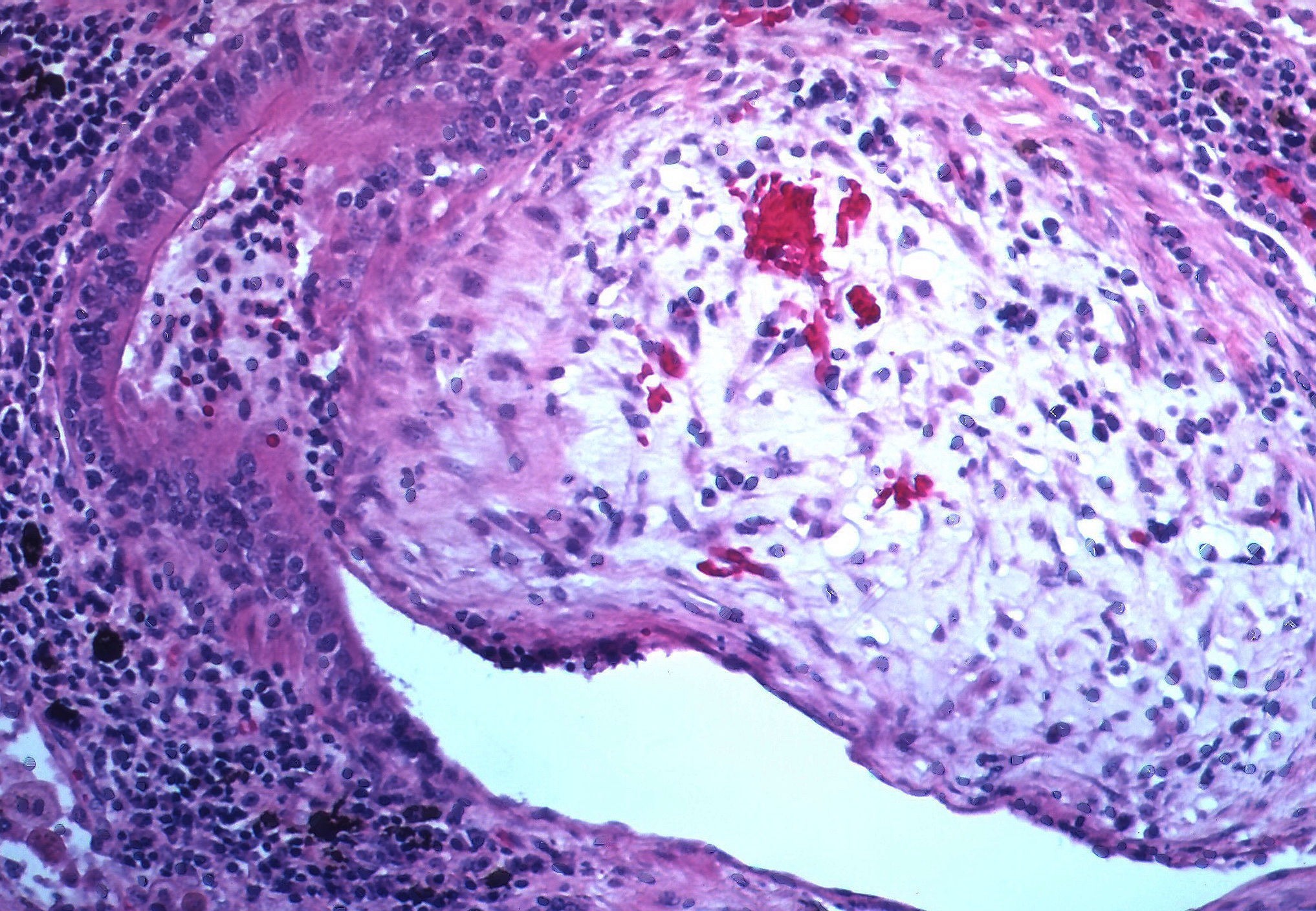 Involvement of a terminal airway with a polypoid nodule of immature connective tissue and fibroblasts identical to the lesions seen withn alveoli and alveolar ducts. This type of involvement of small airways is termed bronchiolitis obliterans.